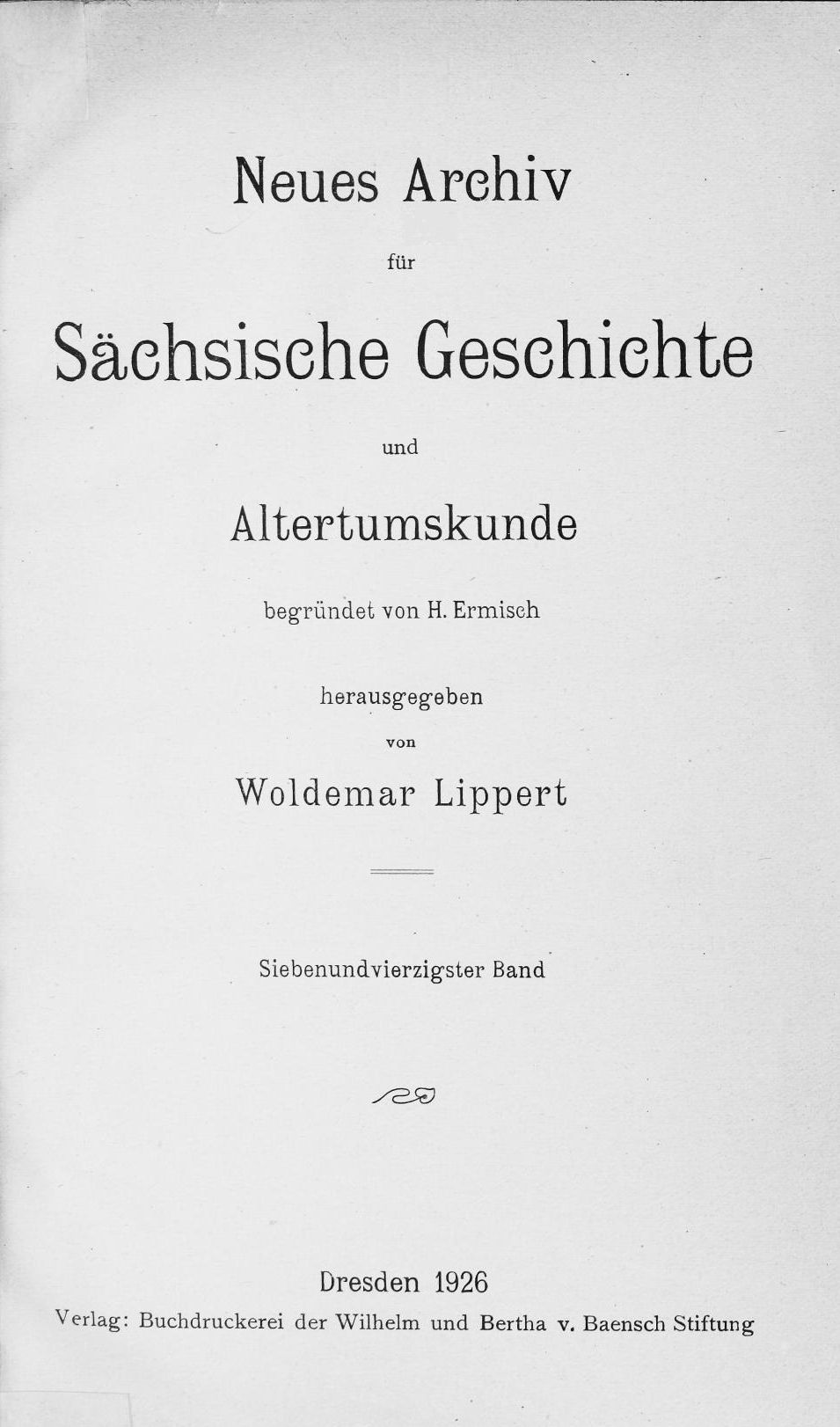 scan of the NASG, Vol. 47